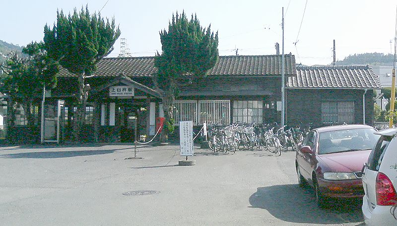 Kamiusuki Station, Nippo Main Line, Kyushu Railway Company.